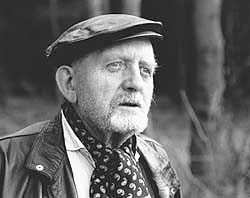 Erwin Strittmatter on April 14, 1992 in Schulzenhof